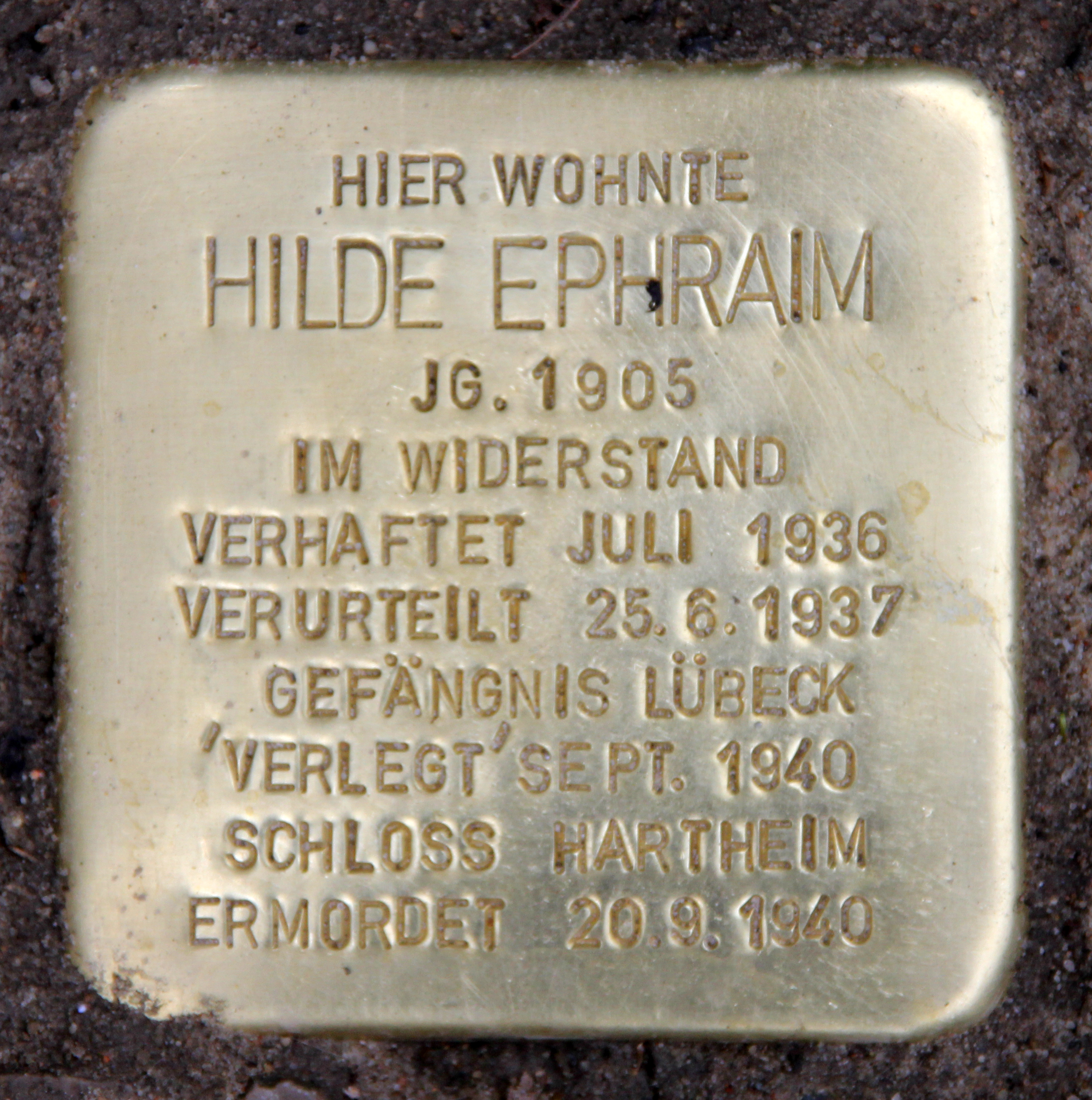 "Stolperstein" (stumbling block), Hilde Ephraim, Bayerische Straße 20, Berlin-Wilmersdorf, Germany